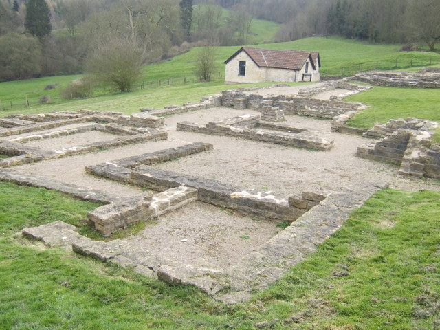 Great Witcombe Roman Villa Great Witcombe Roman Villa is in the stewardship of English Heritage and is open at all reasonable times. The villa formed the centrepiece of a great country estate, built in the 3rd century and abandoned in the 5th century.